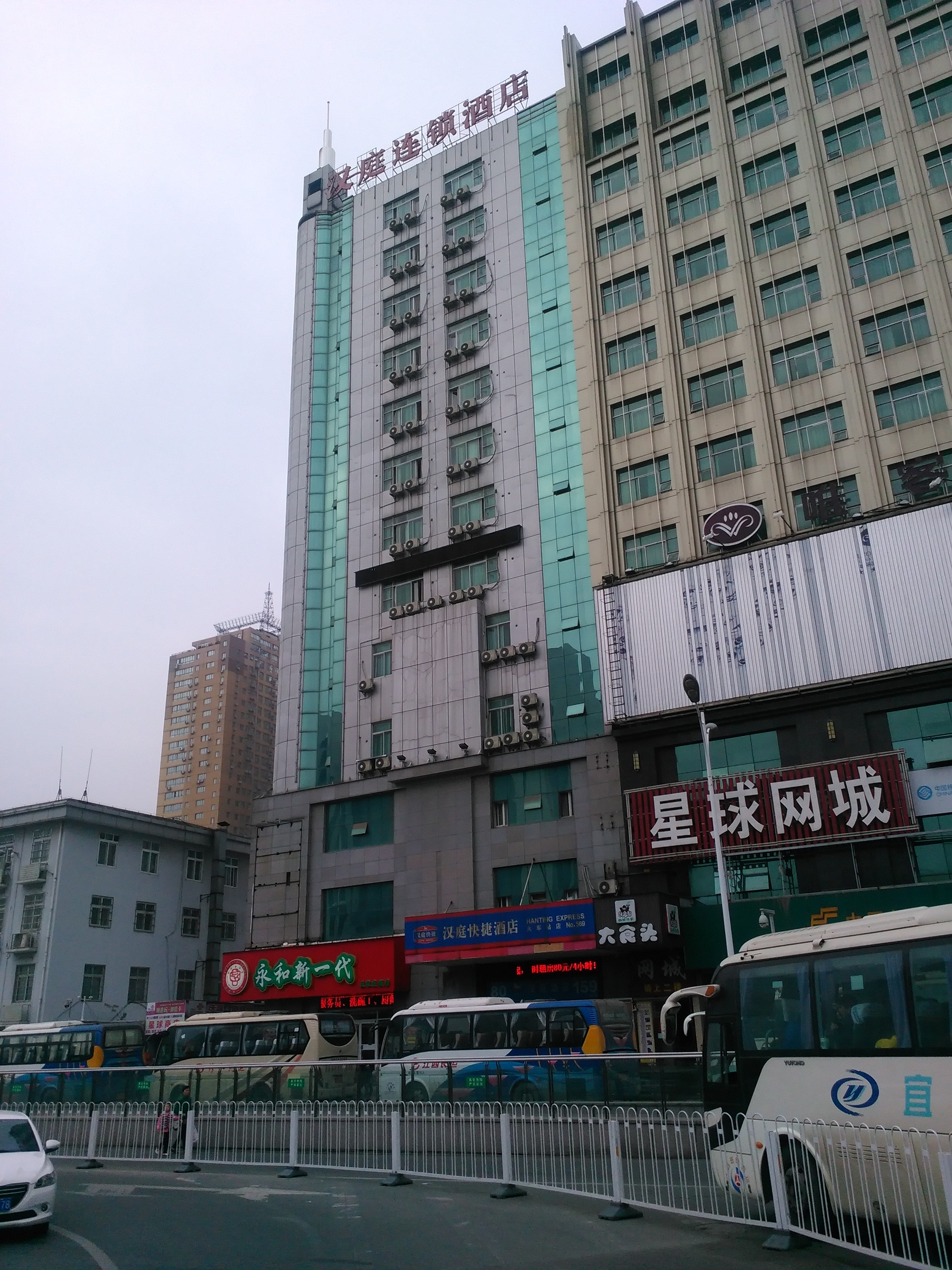 Hanting Express in Nanchang